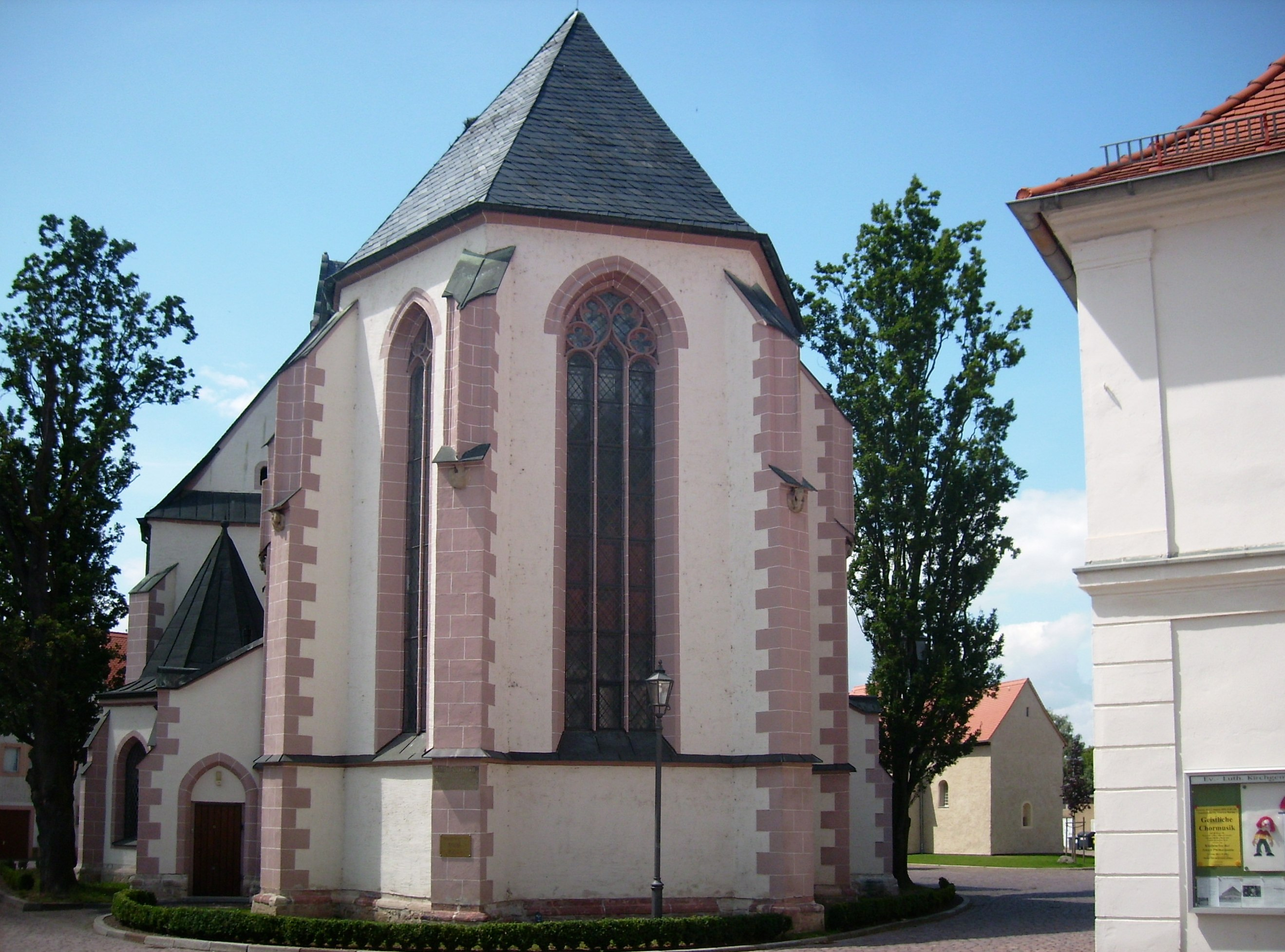 Choir of St. Mary's Church, Borna (Leipzig district, Saxony)